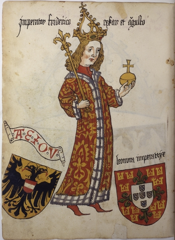 Friedrich III., Emperor